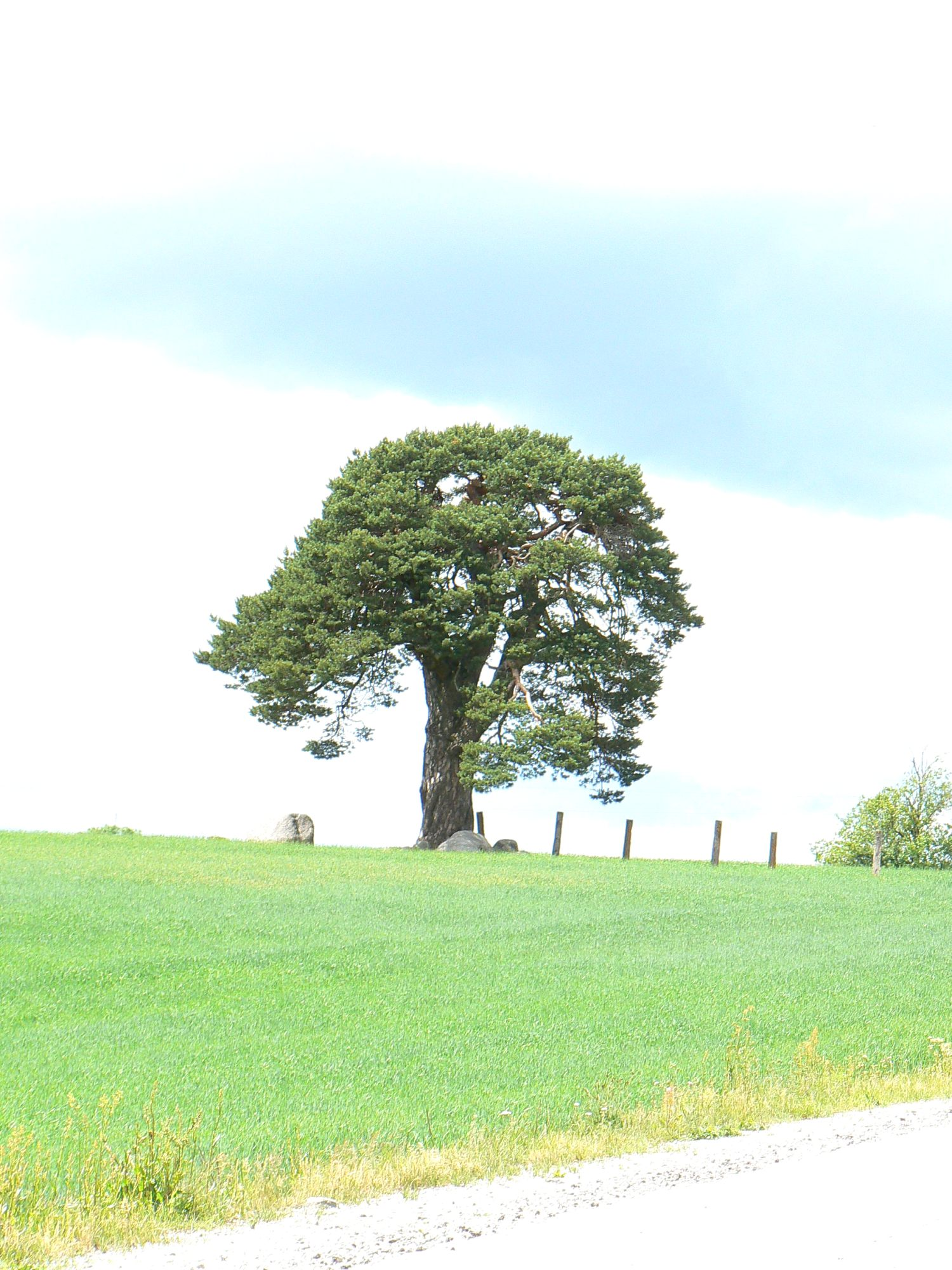 The Laekvere pine in Estonia